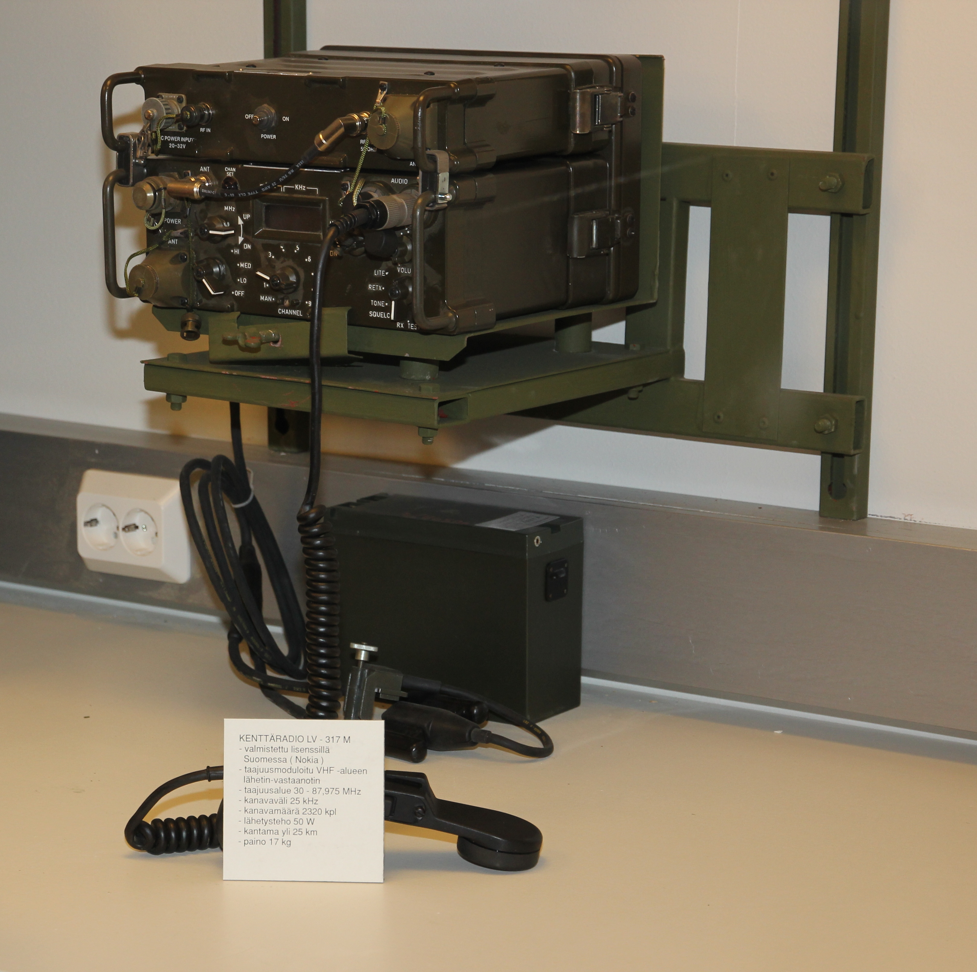 LV 317M military radio in Hämeenlinna artillery museum. Nokia license built PRC-77 (-1177?) with signal amplifier.